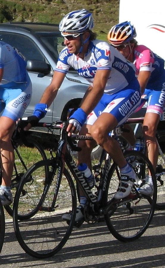 Andrea Tonti, 2008 Vuelta a España, 8th stage, Port de la Bonaigua, Spain.